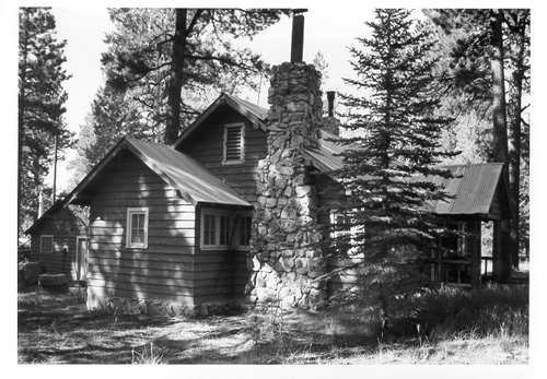 Ranger Residence in the North Rim Headquarters historic district — at the North Rim of the Grand Canyon in Grand Canyon National Park, Coconino County, Arizona, USA.